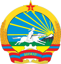 Coat of Arms of the People's Republic of Mongolia (1960-1991 version).